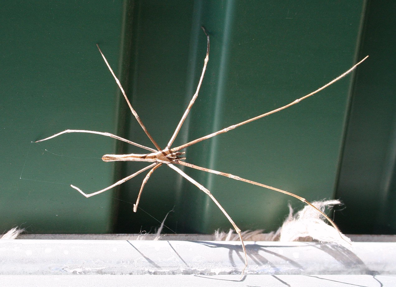 Deinopis_subrufa (Marrickville LGA - NSW)